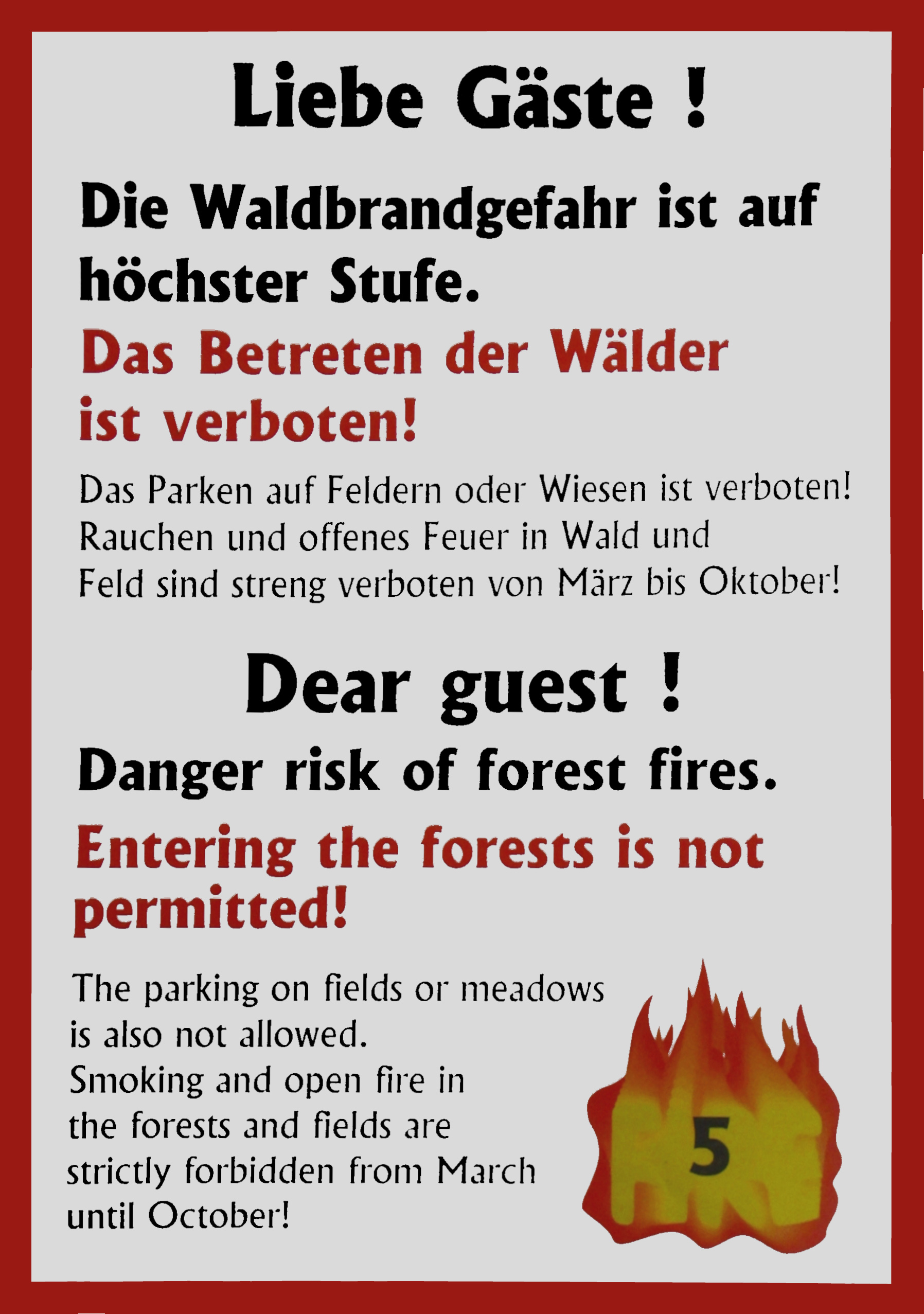 Public sign to the highest level of fire (5) to a campsite in Germany.